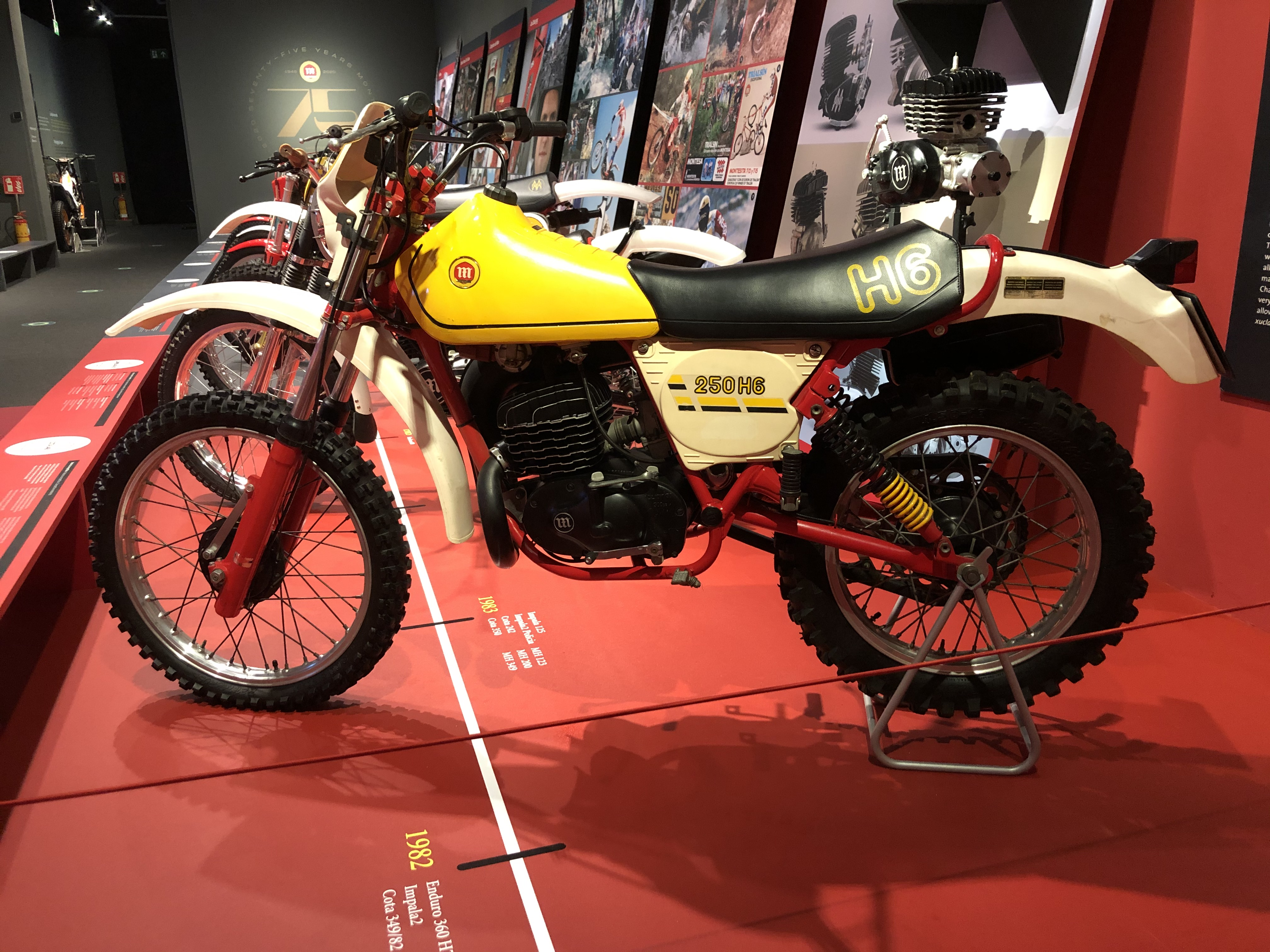 Montesa Enduro 250 H6 (1977), Mod. 54M, 246,3 cc